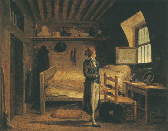 Jean-Antoine Roucher gets ready for the transit from Sainte-Pélagie to Saint Lazare